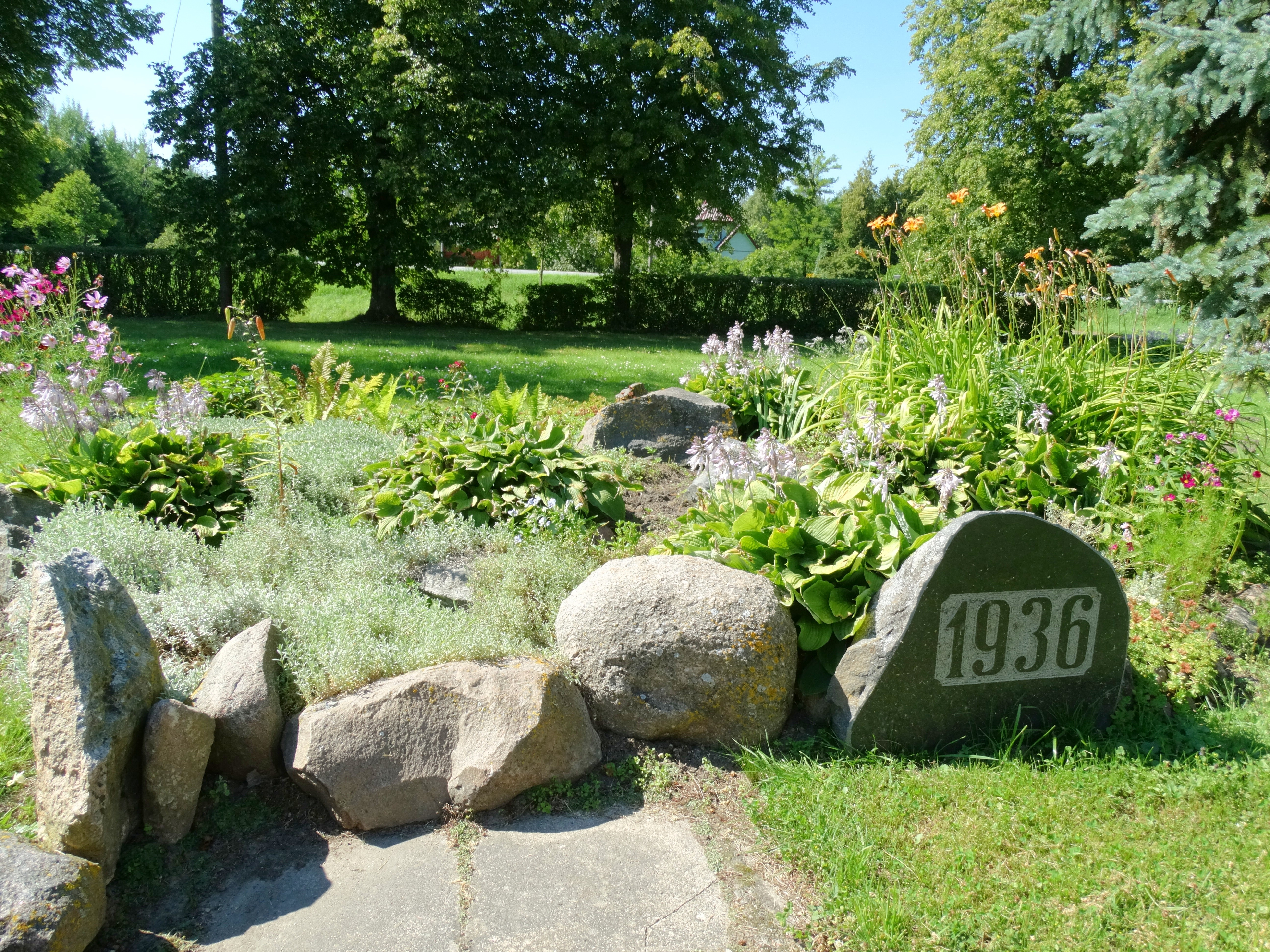 Stone by Kalviai school, Joniškis District, Lithuania